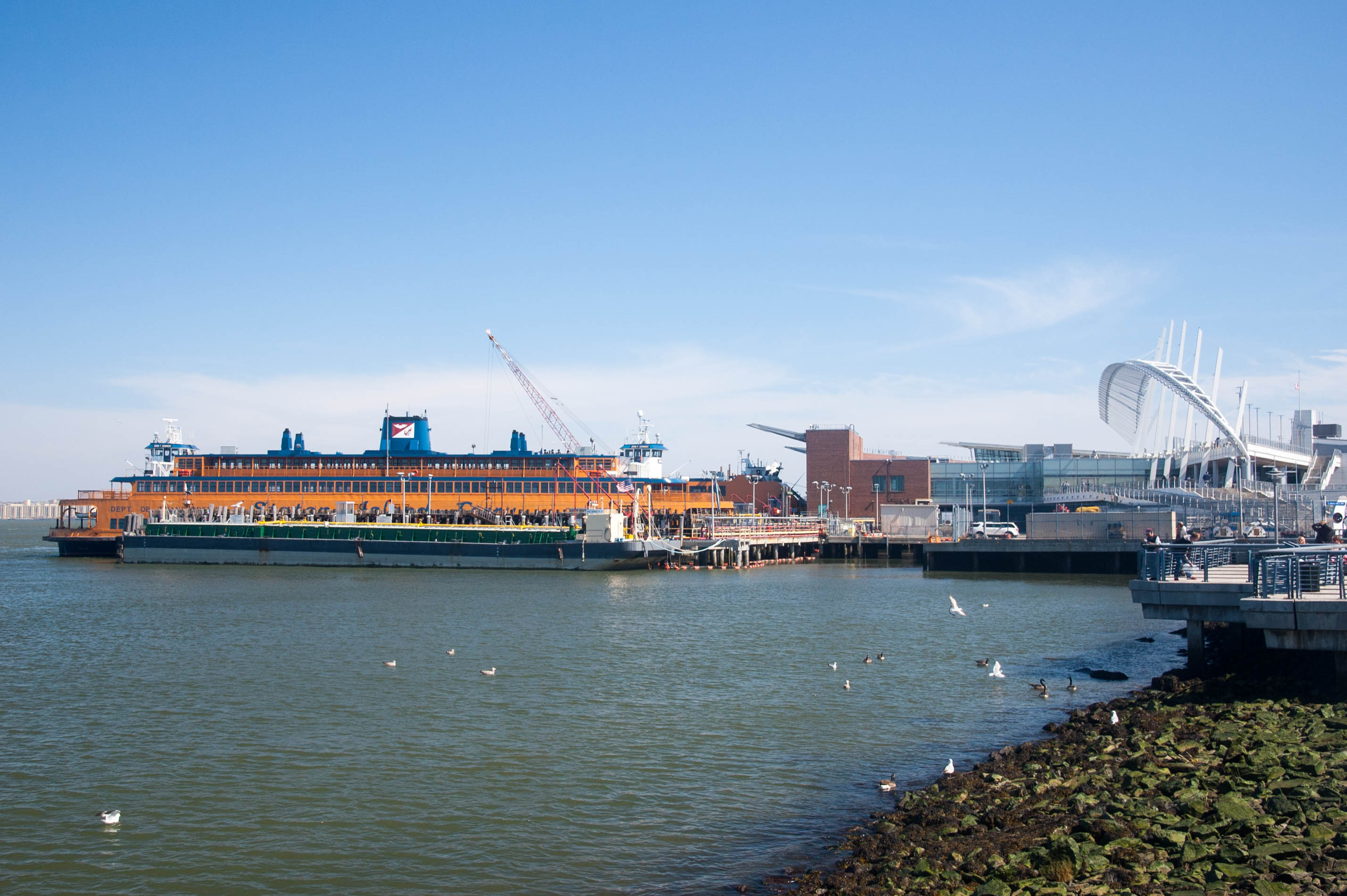 The Saint George ferry terminal that serves the Staten Island Ferry